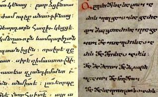 Graphical similarity of Armenian and Georgian alphabet, in their Bolorgir and Nuskhuri forms, respectively